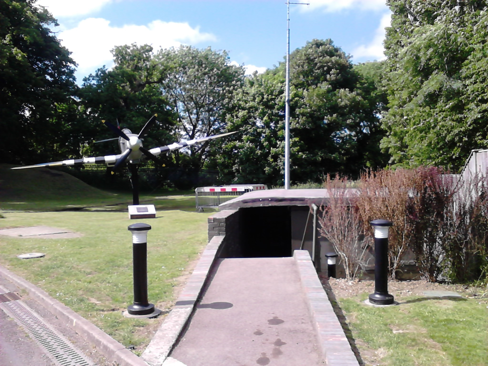 Entrance to the Battle of Britain Bunker, with Spitfire gate guardian standing nearby